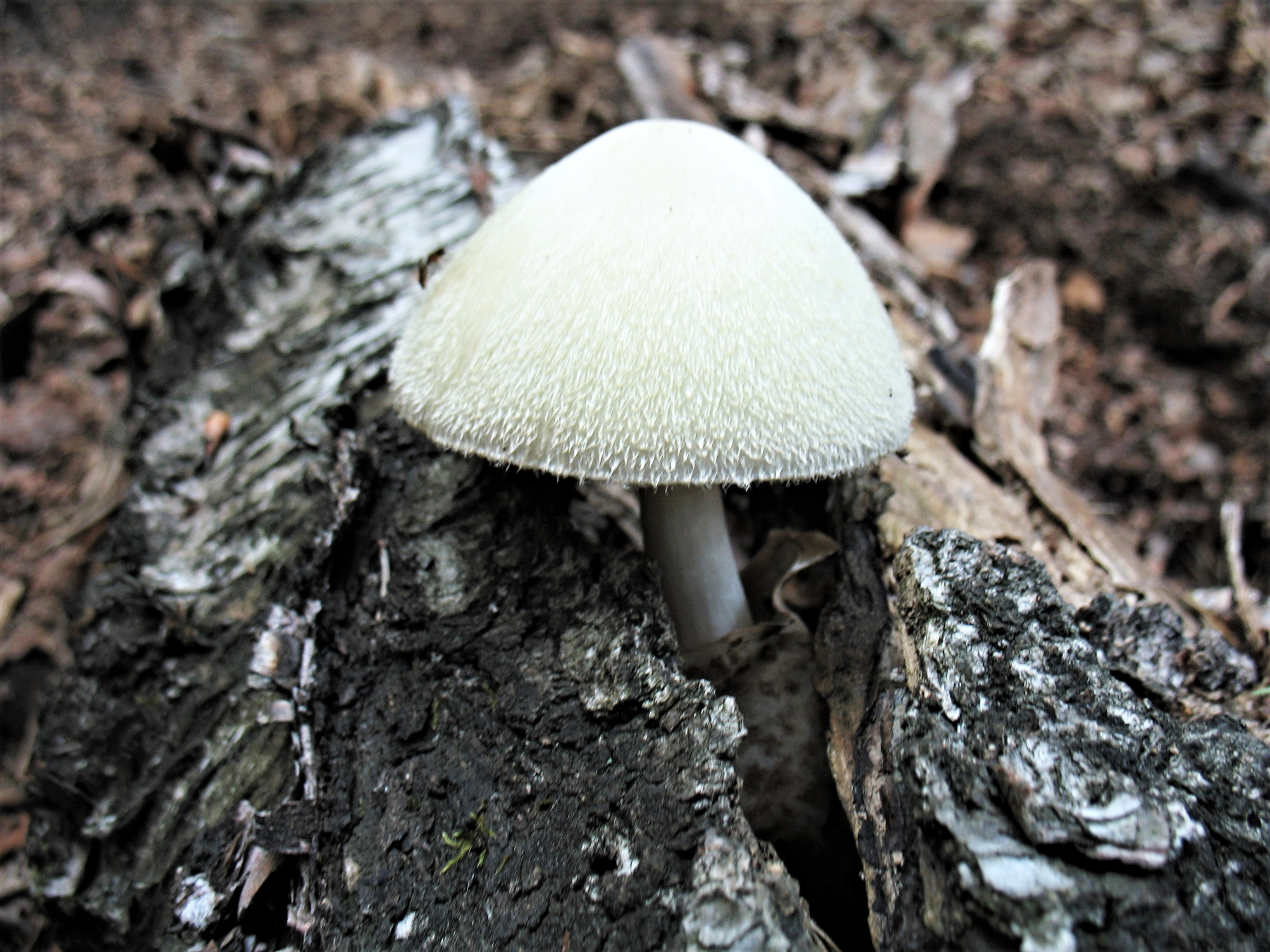 Kukmák bělovlnný (Volvariella bombycina) near Konrádov, Česká Lípa District, Czech Republic